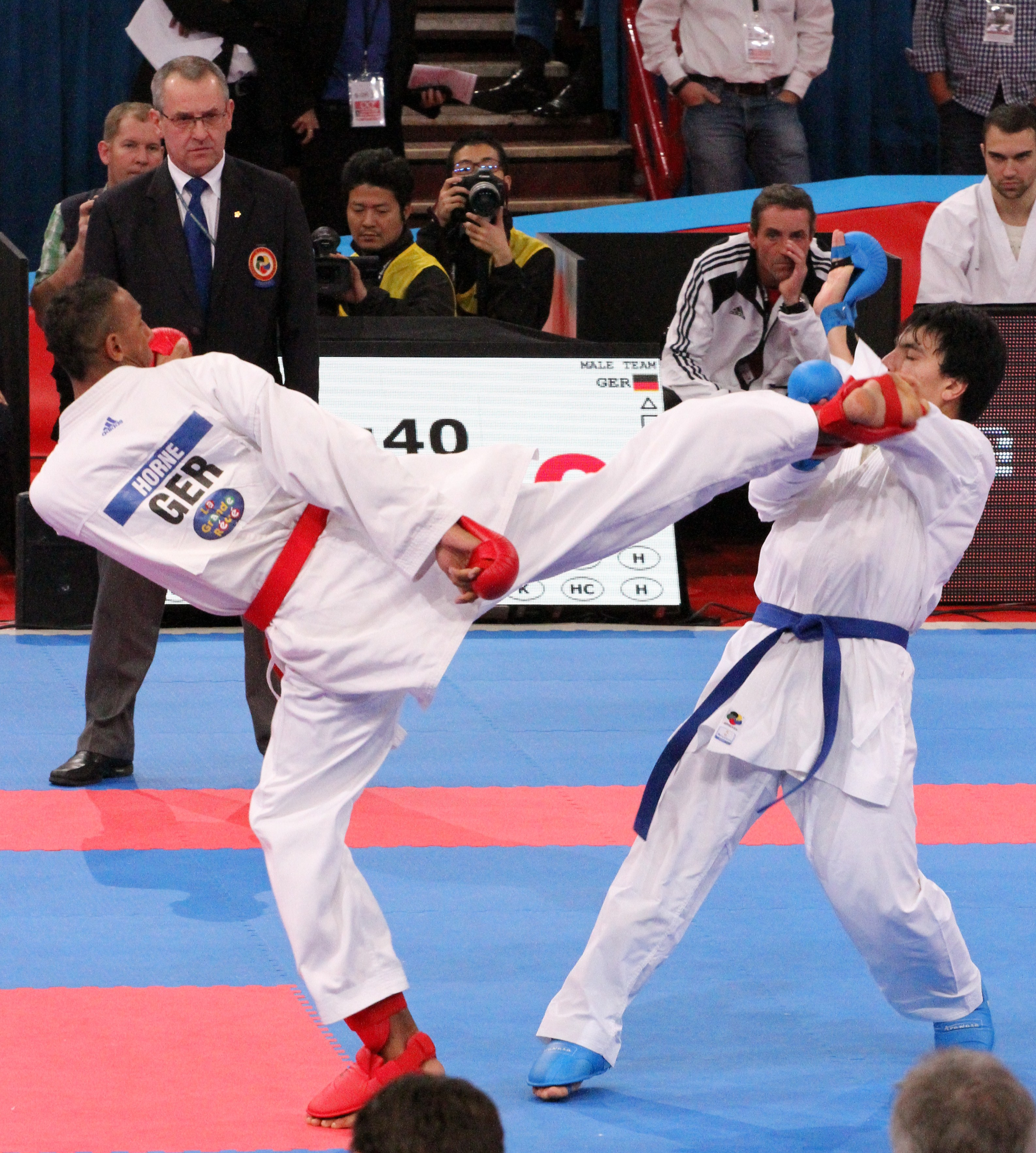 Jonathan Horne (GER) vs. Rafiz Həsənov (AZE) Karate World Championships (WKF)